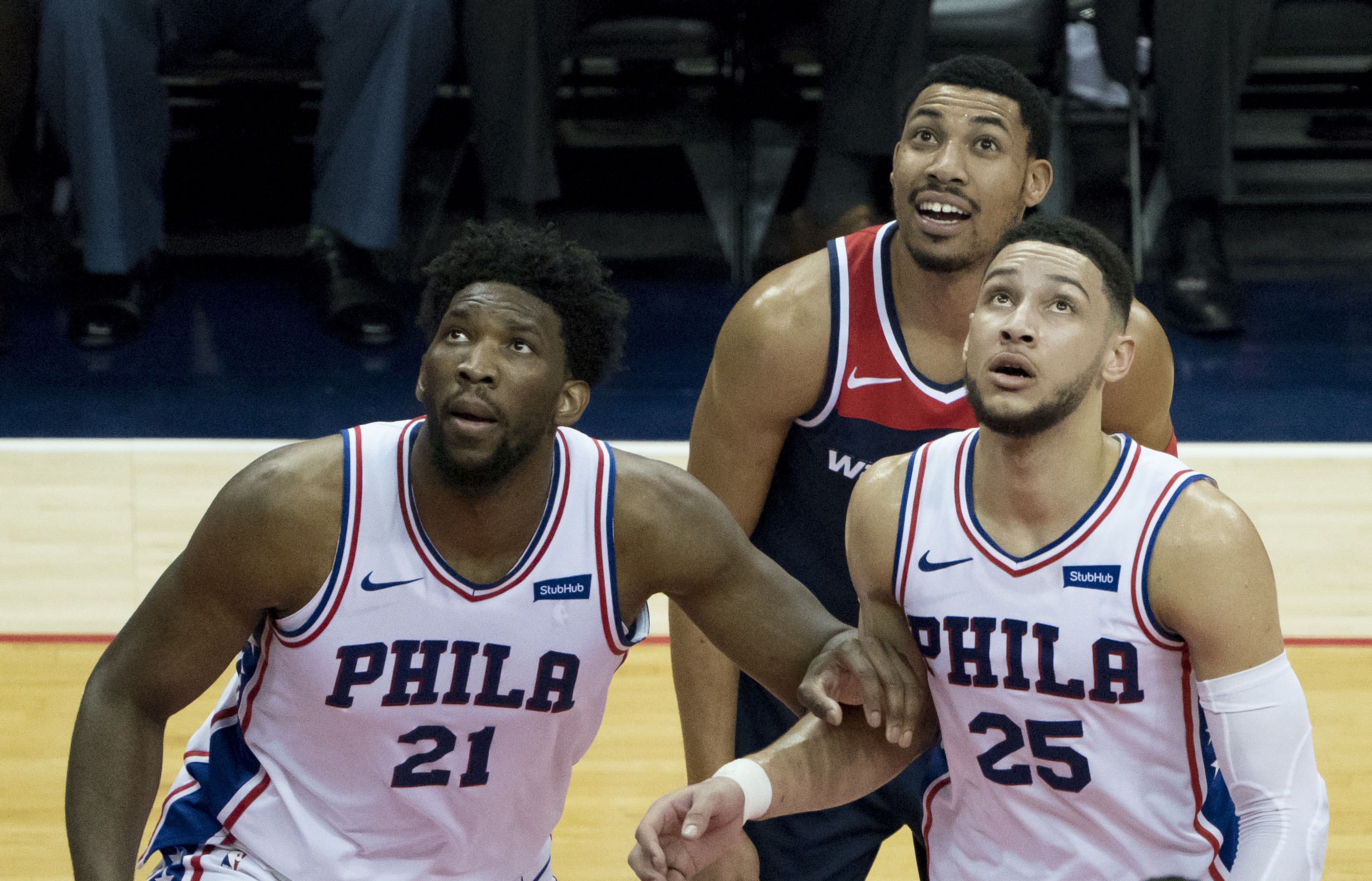 76ers at Wizards 2/25/18